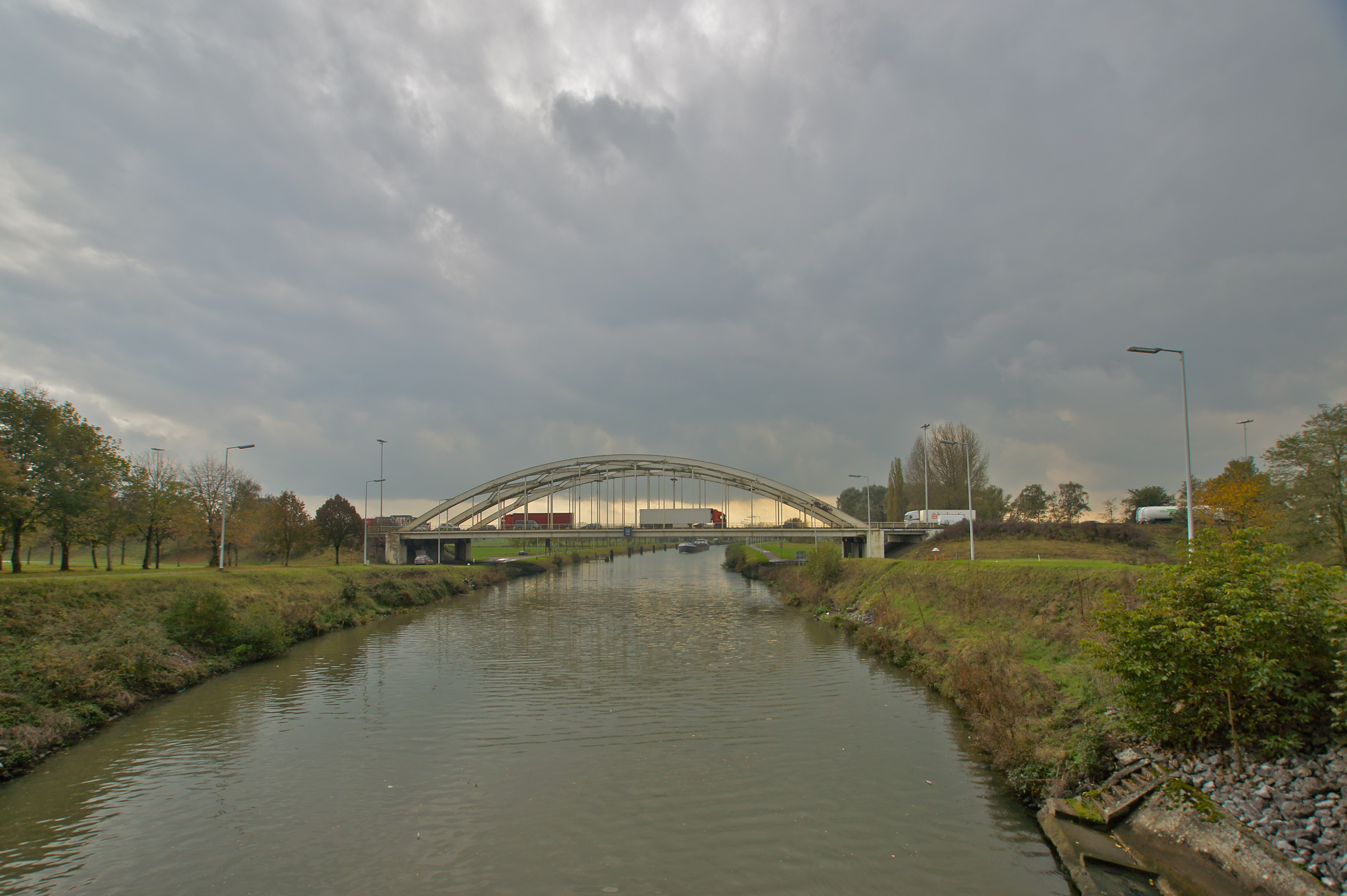 Zandhoven (Viersel), Belgium: E313 Motorway bridge over the Netekanaal